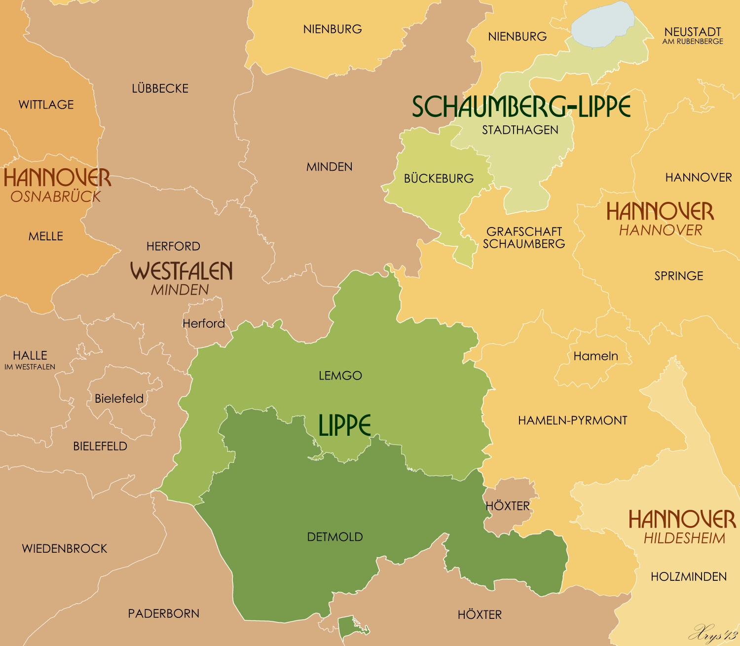 Extract from Karte des Deutschen Reiches (1944) showing administrative boundaries of Land Lippe and Schaumberg-Lippe and parts of Provinz Westfalen and Hannover. GIS Data digitised from Karte des Deutschen Reiches 1:100 000. Some source KDR maps from WIG (